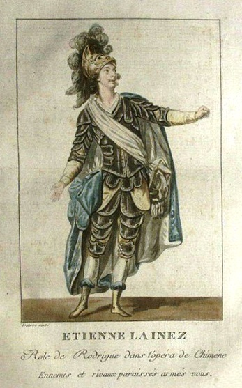 Étienne Lainez, leading tenor of the Paris Académie Royale de Musique, in the costume of Rodrigue, the male protagonist of the opera Chimène by Antonio Sacchini (premiere: Fontainebleau, 16 November 1783)